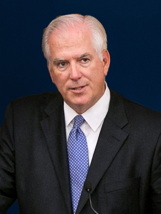 Photo of Miles D. White